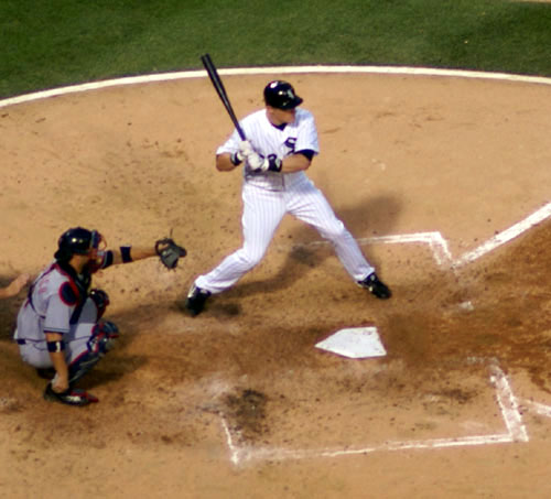 White Sox Outfielder Brian Anderson bats at a game at US Cellular field on July 1, 2008.